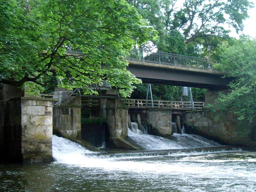 Petriwehr in Braunschweig.